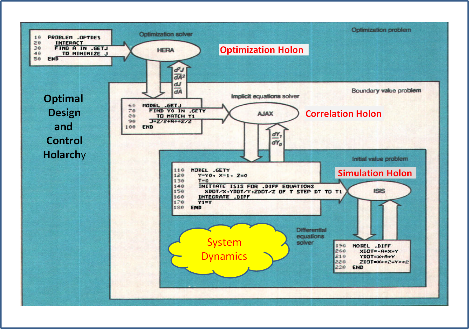 Optimal design and optimal control, calculus of variations, textbook example which illustrates nested holarchy modeling in the MetaCalculus paradigm, as it was introduced the time-sharing version of PROSE in 1975.